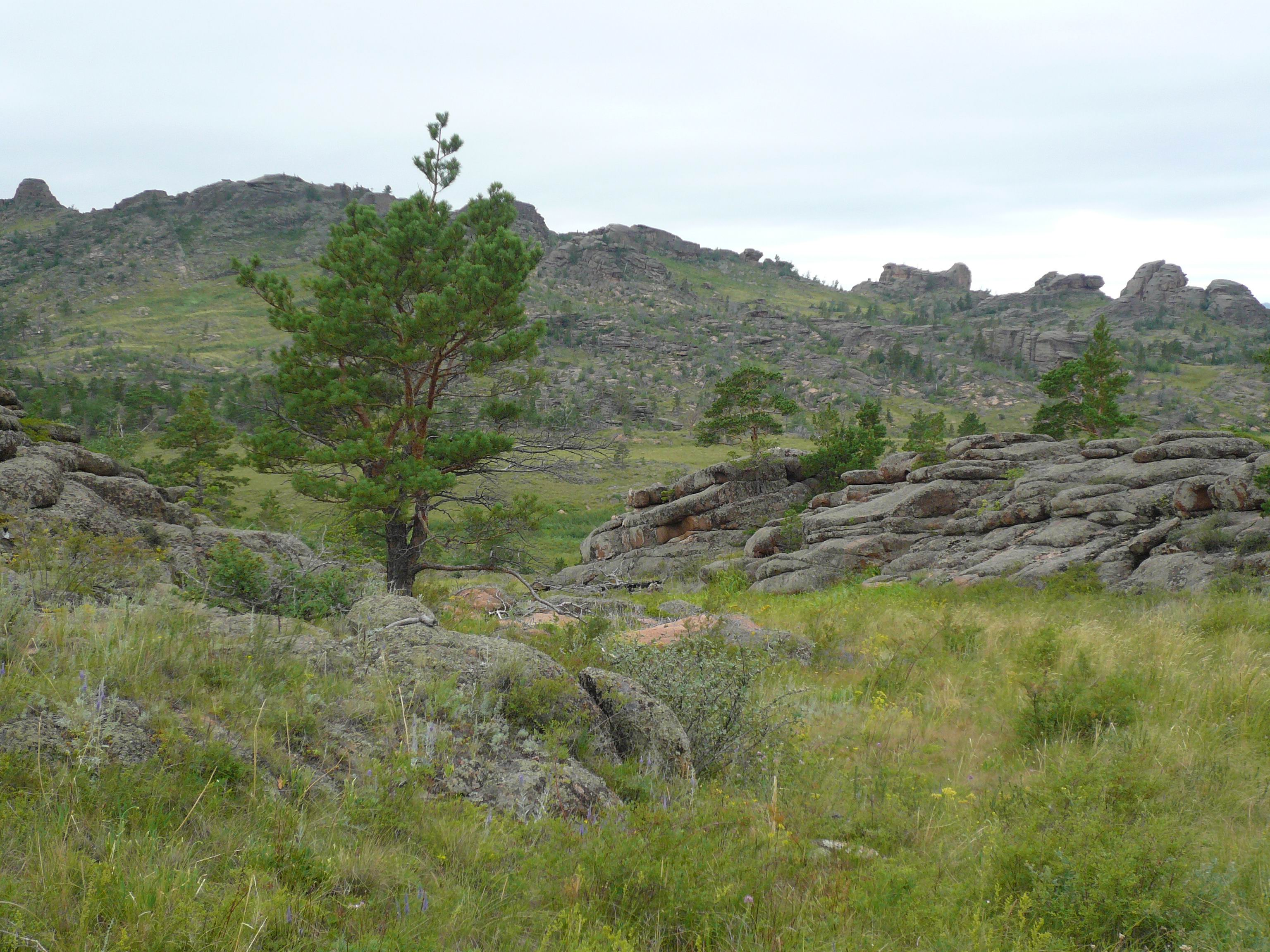 Common landscape of Bayanaul